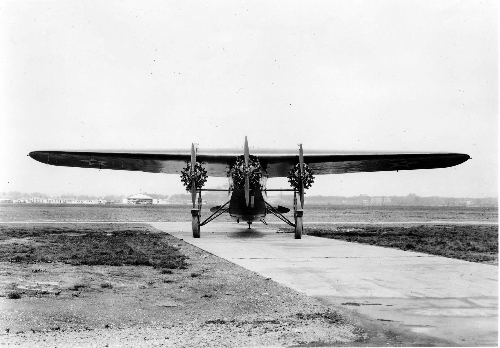 Atlantic-Fokker C-2 (S/N 26-203) at Bolling Field in 1927. (U.S. Air Force photo)